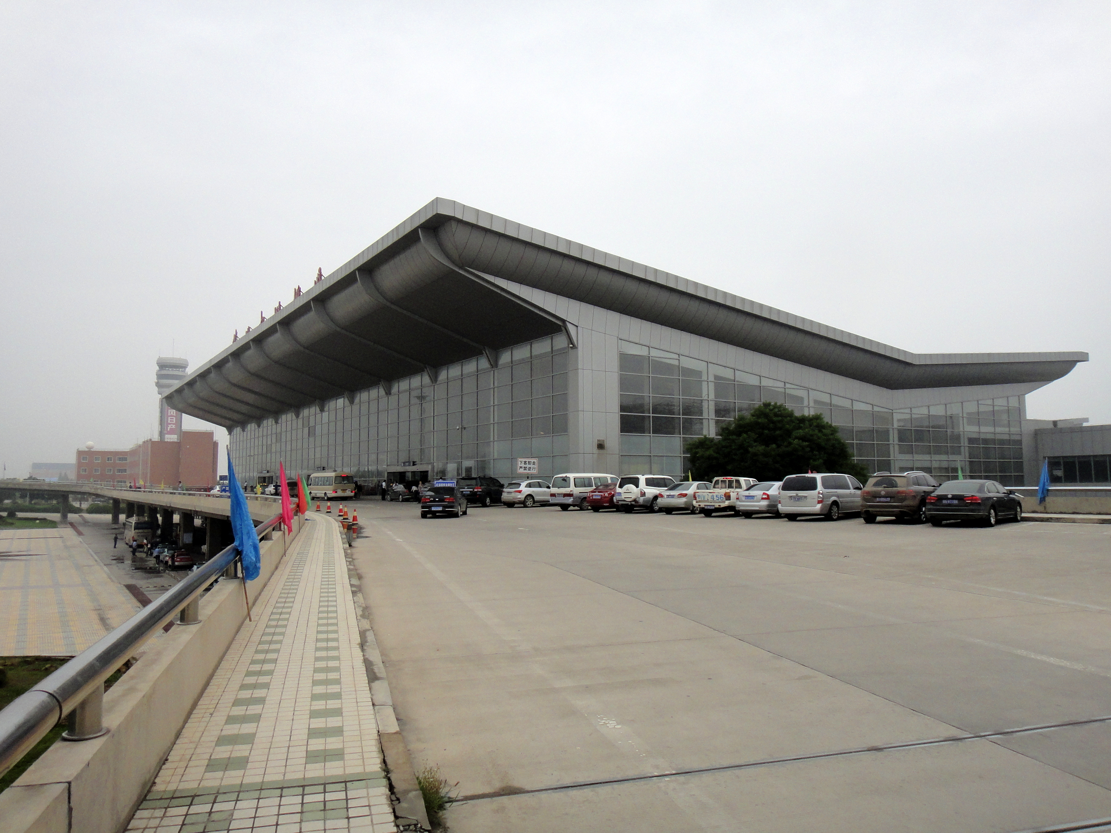 Existing terminal as seen from the south.